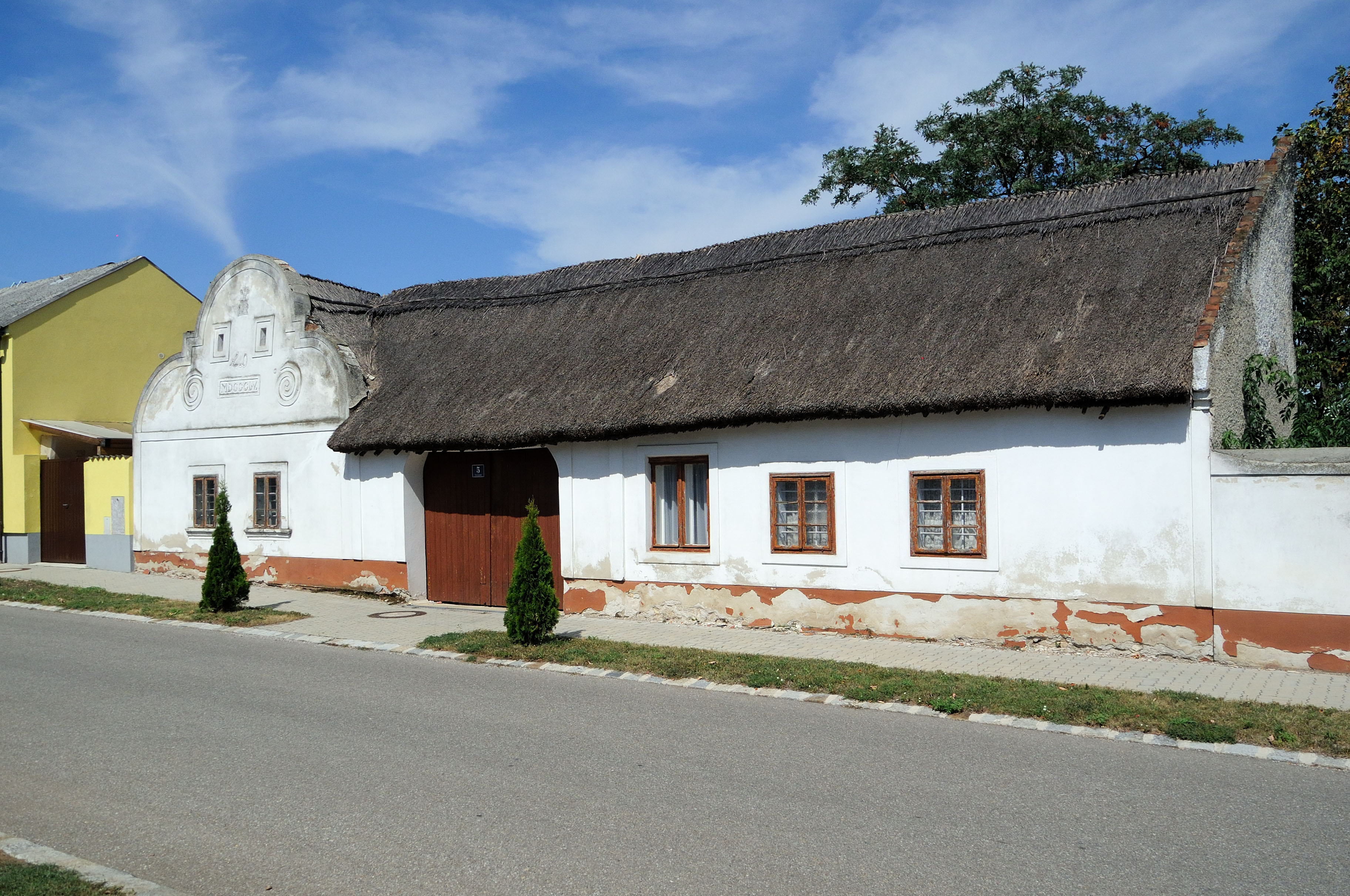 Former estate in Neudorf near Parndorf, Burgenland, Austria